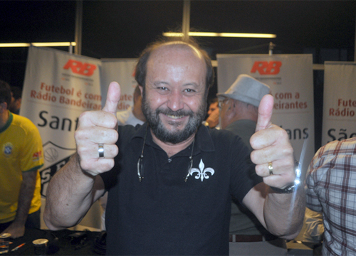 Lélio Teixeira smiling!